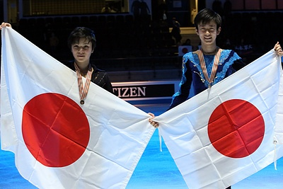 Shoma Uno (1st) and Sota Yamamoto (2nd) at the 2015 World Junior Figure Skating Championships